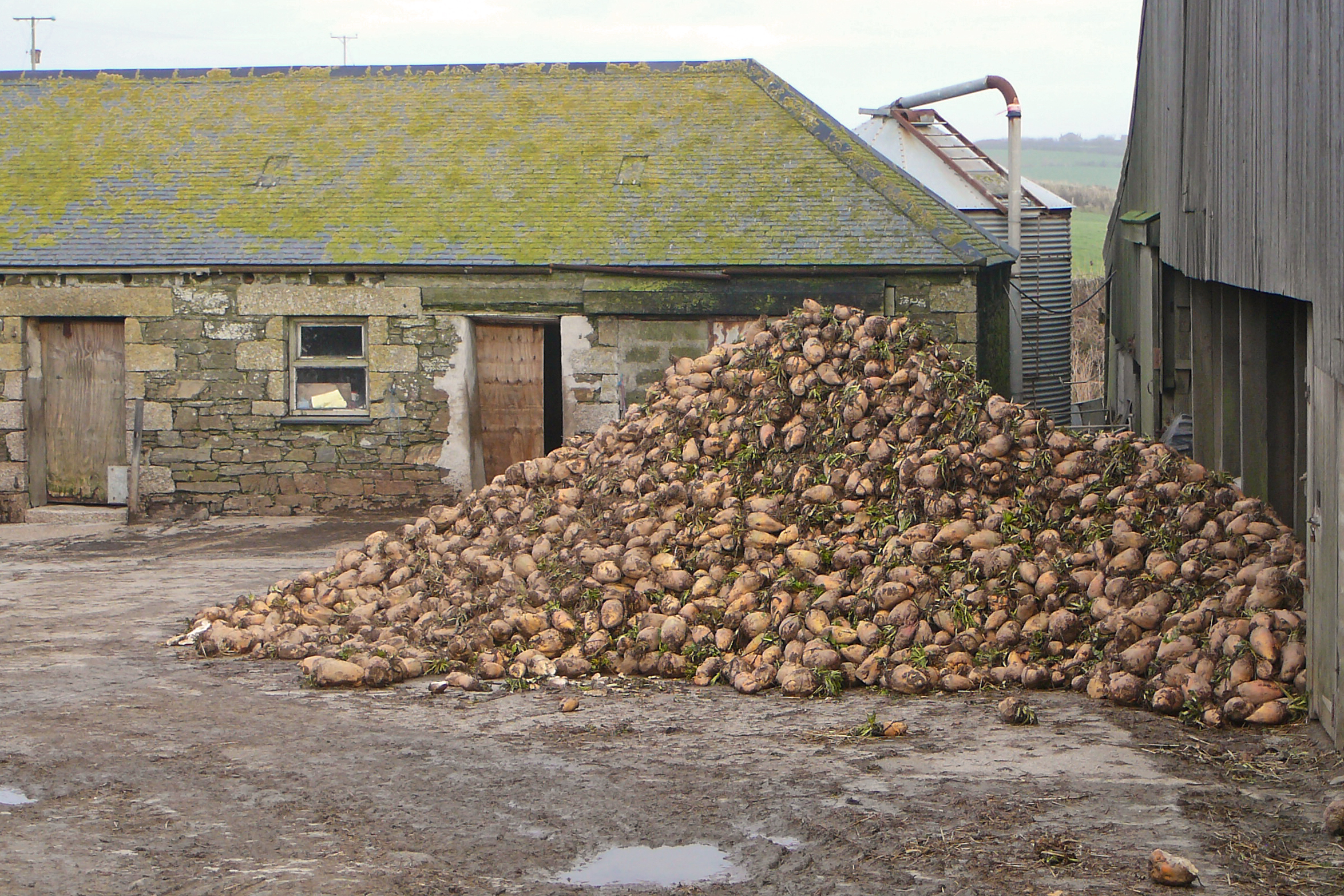 Mangold-wurzels (for bovine, presumably, rather than human consumption) piled up in the yard of Winnanton Farm, Gunwalloe, Cornwall, England